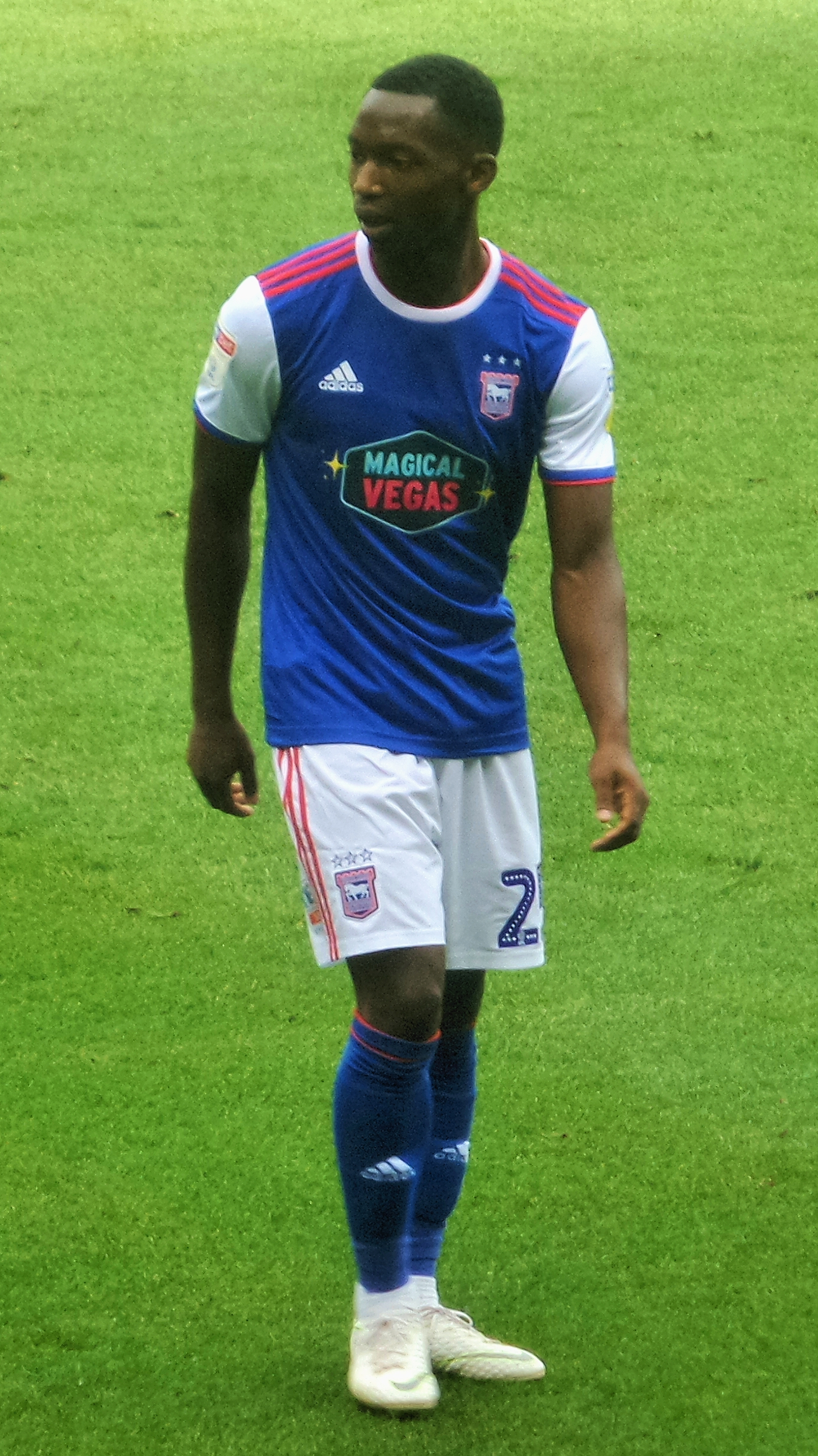 Tayo Edun on his Ipswich Town debut (on loan from Fulham) against Blackburn Rovers on 4 August 2018